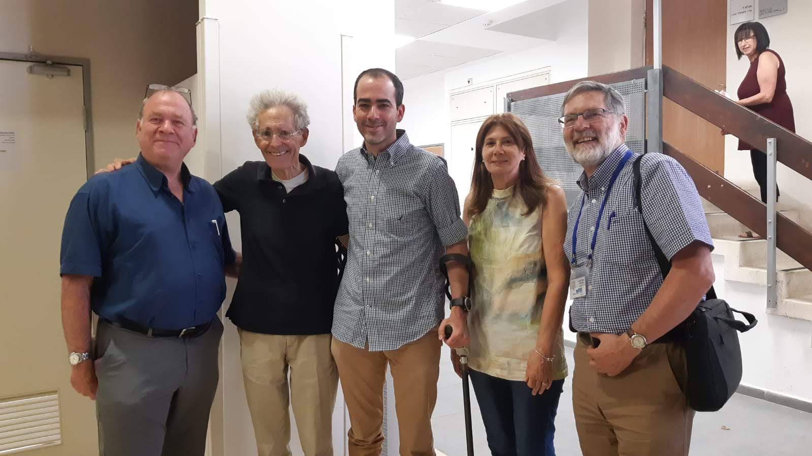 From Left: Prof. Alex Lubotzky, Prof. Haim Cedar, Dr. Asael Lubotzky, Dr. Ruth Shemer, Prof. Michael Schimmel. The James Sivartsen Prize in Cancer Research is awarded each year to a Hebrew University researcher who is doing the most innovative work with application to the field of pediatric cancer research. The 10th and 2019 Prize was awarded to Dr. Asael Lubotzky, a physician and a PhD. student of Professor Yuval Dor and Dr. Ruth Shemer, who works on methylation patterns of circulating cell free DNA. Dr. Lubotzky (formerly Prof. Haim Cedar lab) was recognized for his studies on circulating cfDNA as cancer diagnostic markers.